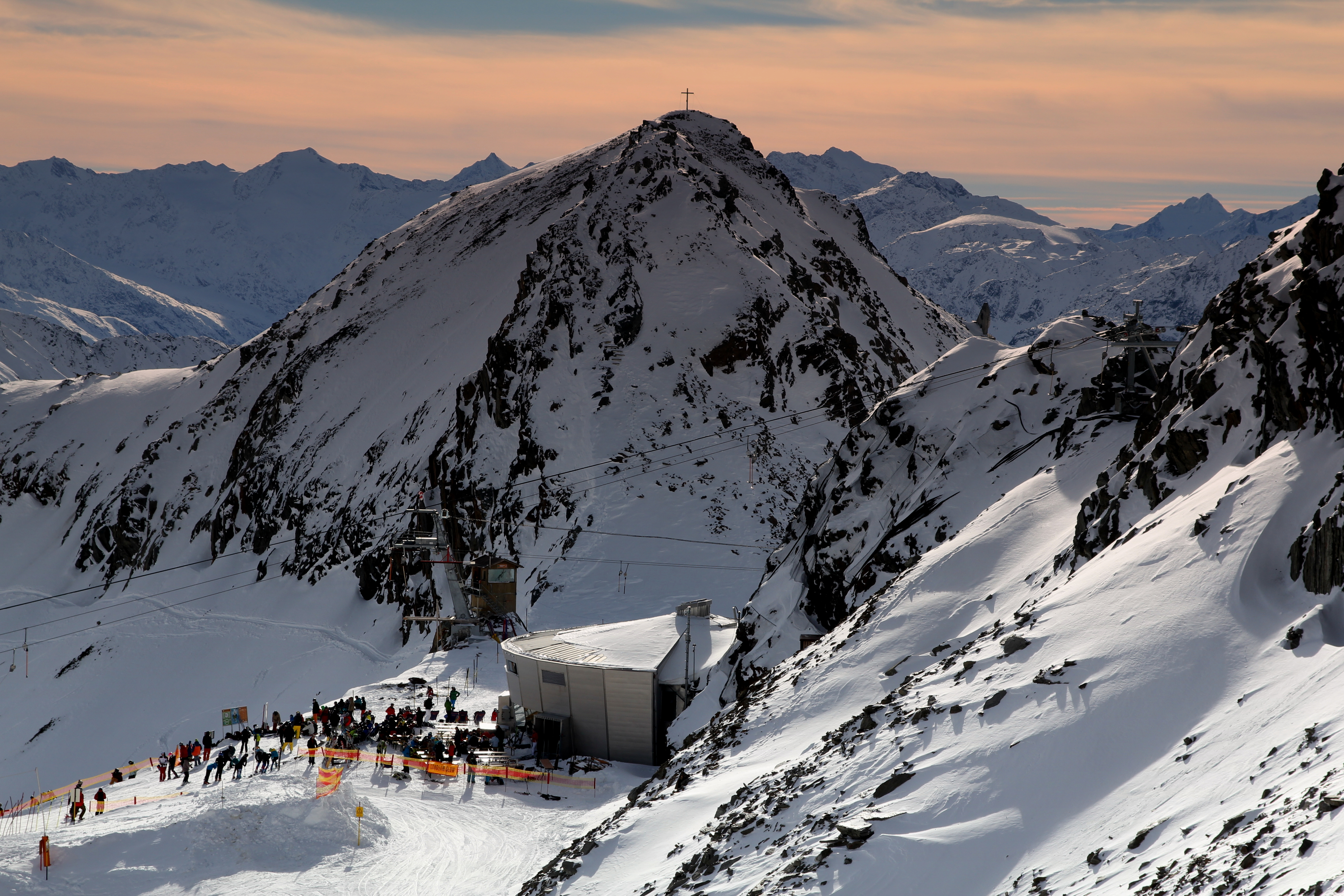 Stubai glacier, Jochdohle - the highest situated restaurant in Austria; 3.150 m